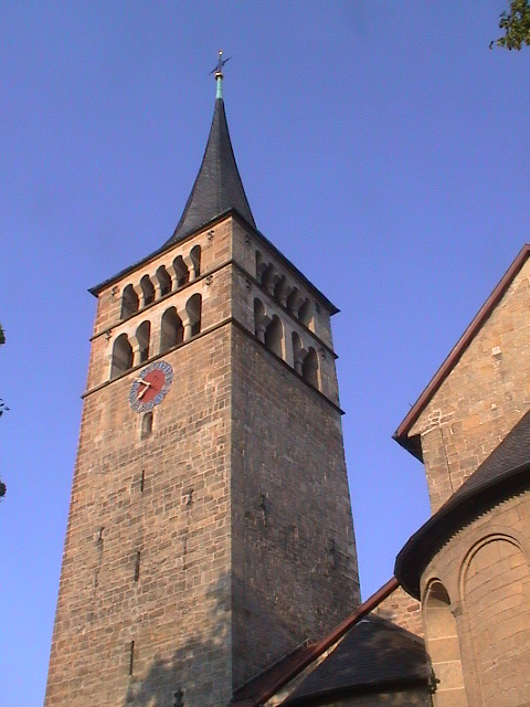 Church Martinskirche in Sindelfingen, Germany